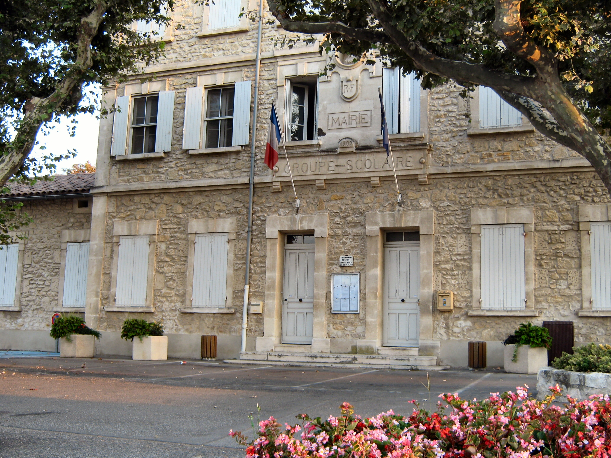 Town hall of Saint-Étienne-du-Grès (Bouches-du-Rhône, France)